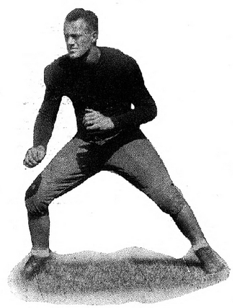 Photograph of Howie Auer This work is in the public domain because it was published in the United States between 1923 and 1963 and although there may or may not have been a copyright notice, the copyright was not renewed. Unless its author has been dead for the required period, it is copyrighted in the countries or areas that do not apply the rule of the shorter term for US works, such as Canada (50 pma), Mainland China (50 pma, not Hong Kong or Macao), Germany (70 pma), Mexico (100 pma), Switzerland (70 pma), and other countries with individual treaties. See Commons:Hirtle chart for further explanation. This work is in the public domain because it was published in the United States between 1923 and 1977 and without a copyright notice. Unless its author has been dead for several years, it is copyrighted in jurisdictions that do not apply the rule of the shorter term for US works, such as Canada (50 p.m.a.), Mainland China (50 p.m.a., not Hong Kong or Macao), Germany (70 p.m.a.), Mexico (100 p.m.a.), Switzerland (70 p.m.a.), and other countries with individual treaties. See this page for further explanation.